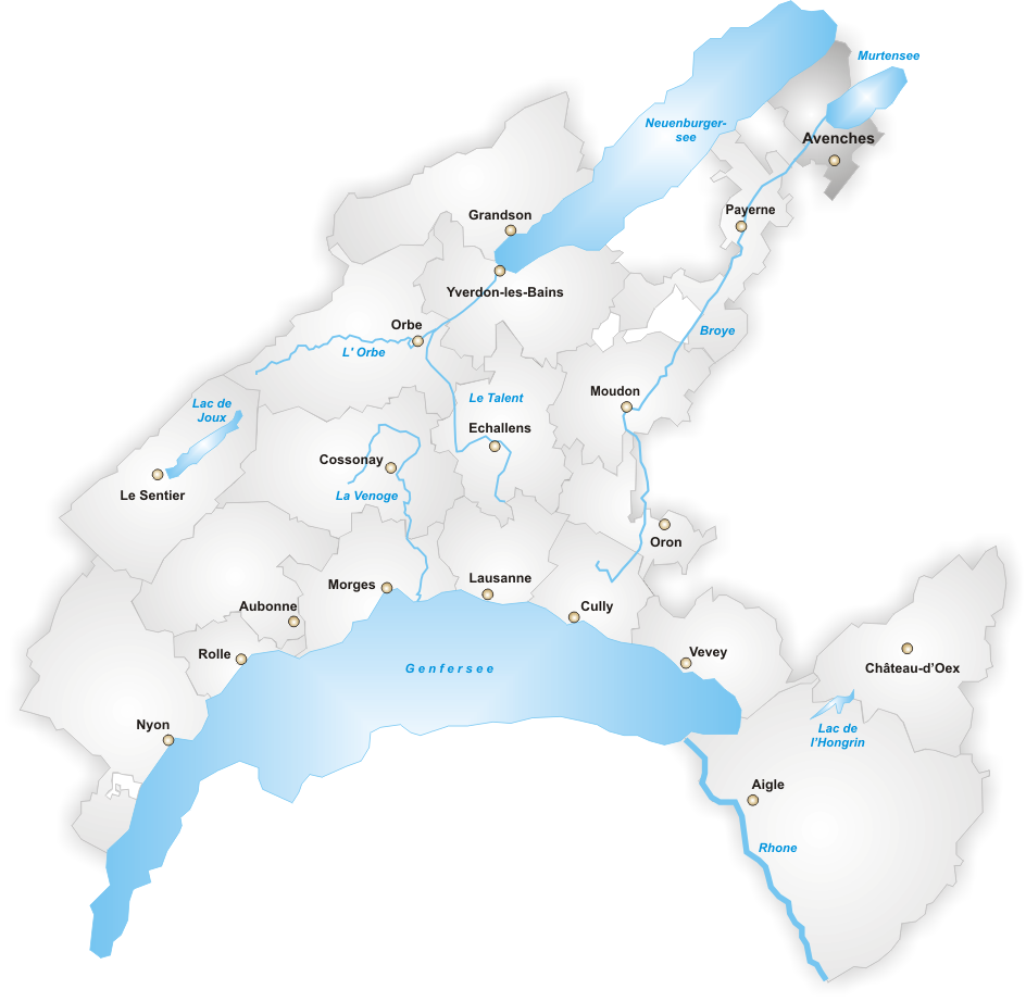 District Avenches until 2007